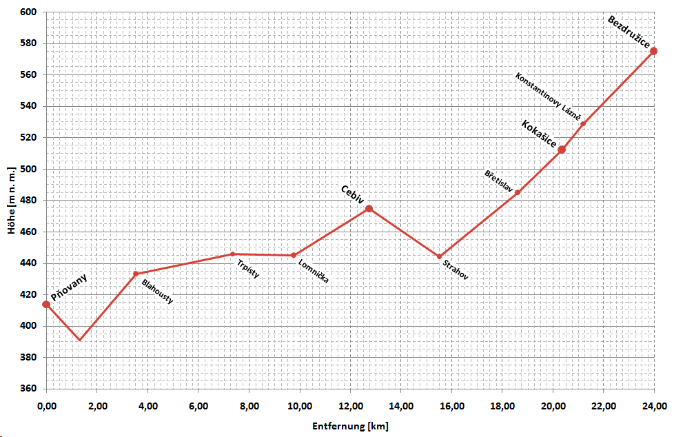 simplified altitude-profile of railway track Pňovany–Bezdružice